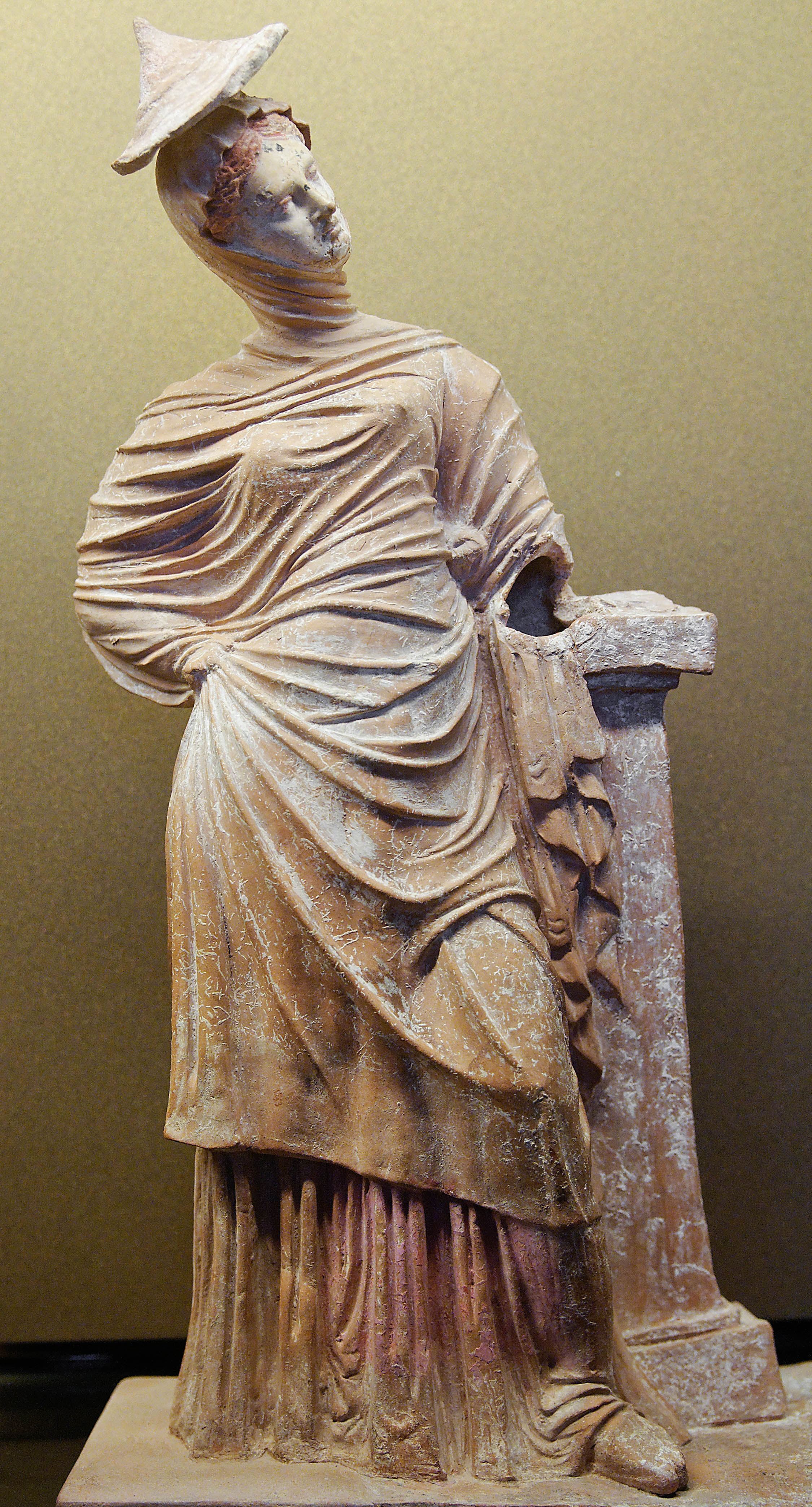 Draped young woman leaning on a pillar. Terracotta figurine, Tanagran artwork, late 3rd century BC–early 2nd century BC. From grave A of the necropolis in Tanagra.